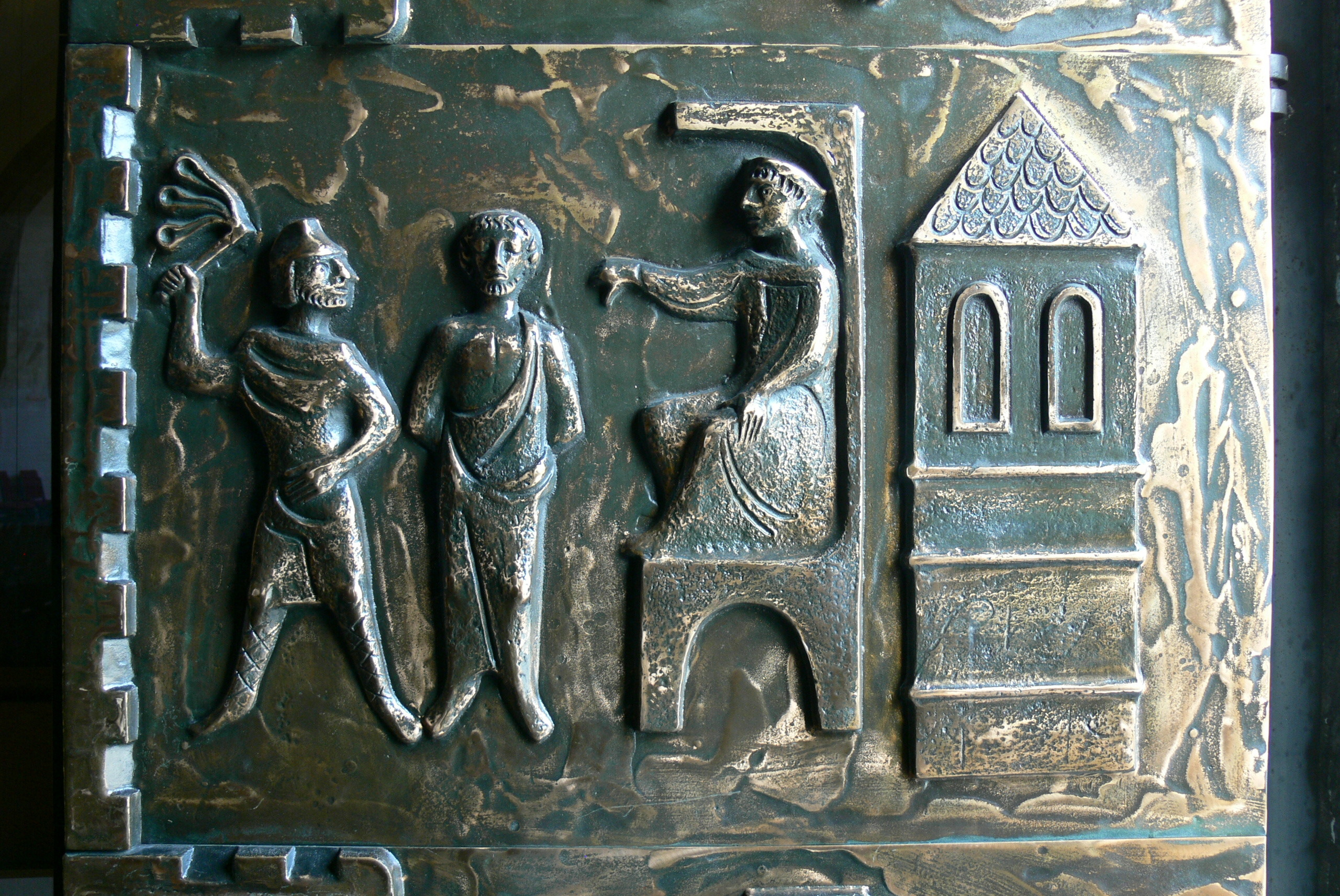 Lorch ( Enns/Upper Austria ). Basilica of Saint Lawrence: Saint Florian gate ( 1970 ) by Peter Dimmel - Saint Florian being sentenced to death.